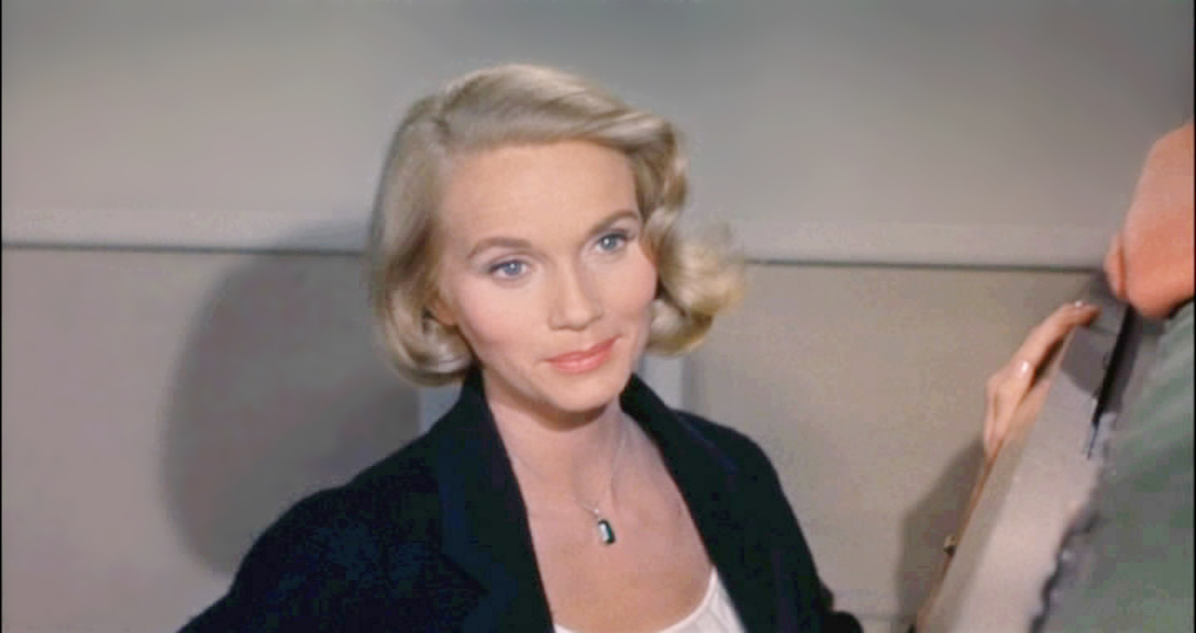 Cropped screenshot of Eva Marie Saint.